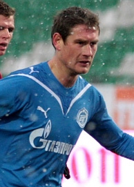 Ivica Krizanac against Moscow